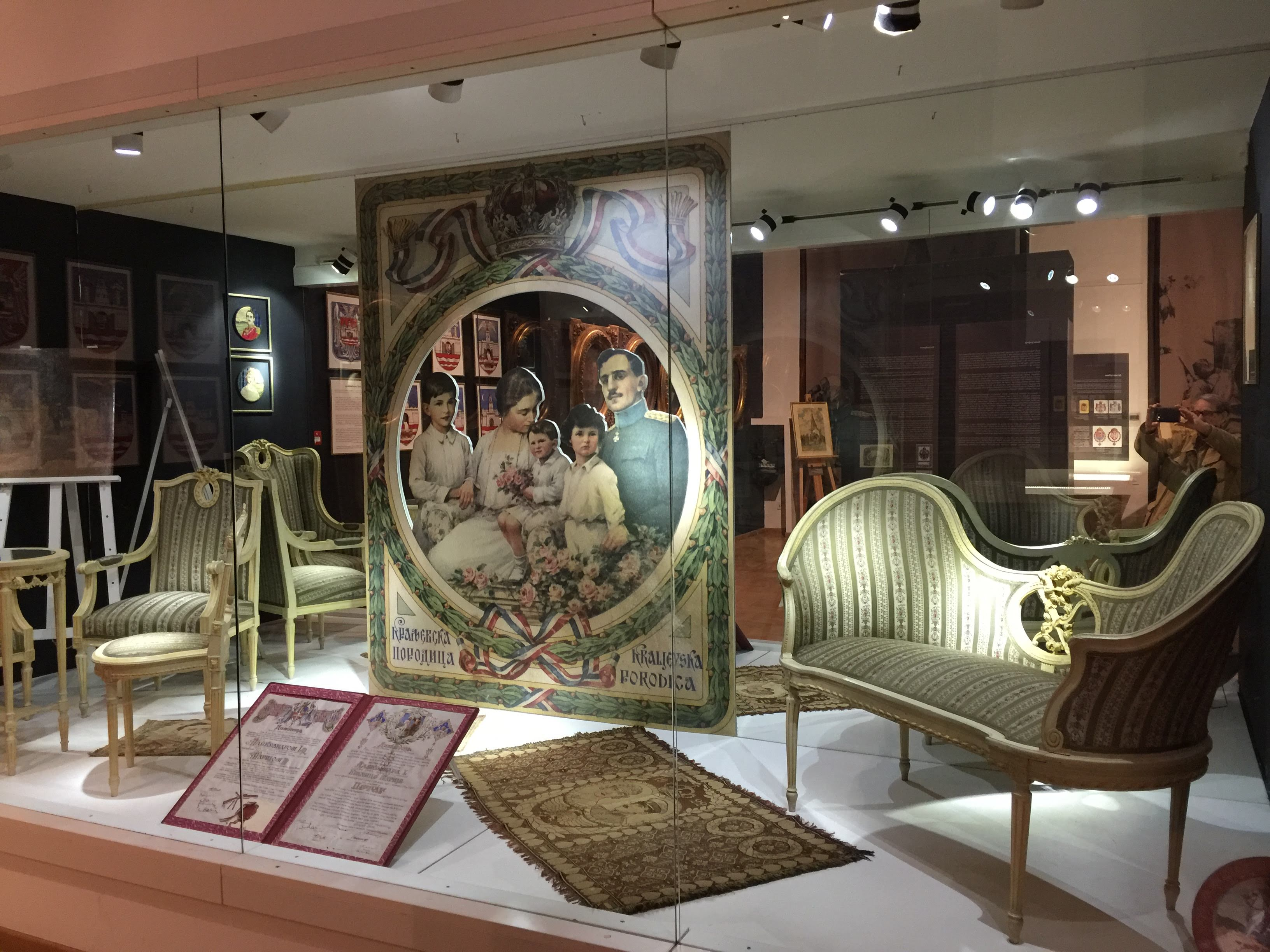 Historical Museum of Serbia, Đorđe Ćarapić: Part from a collection of conceptual solutions for the royal family Karadjordjevic